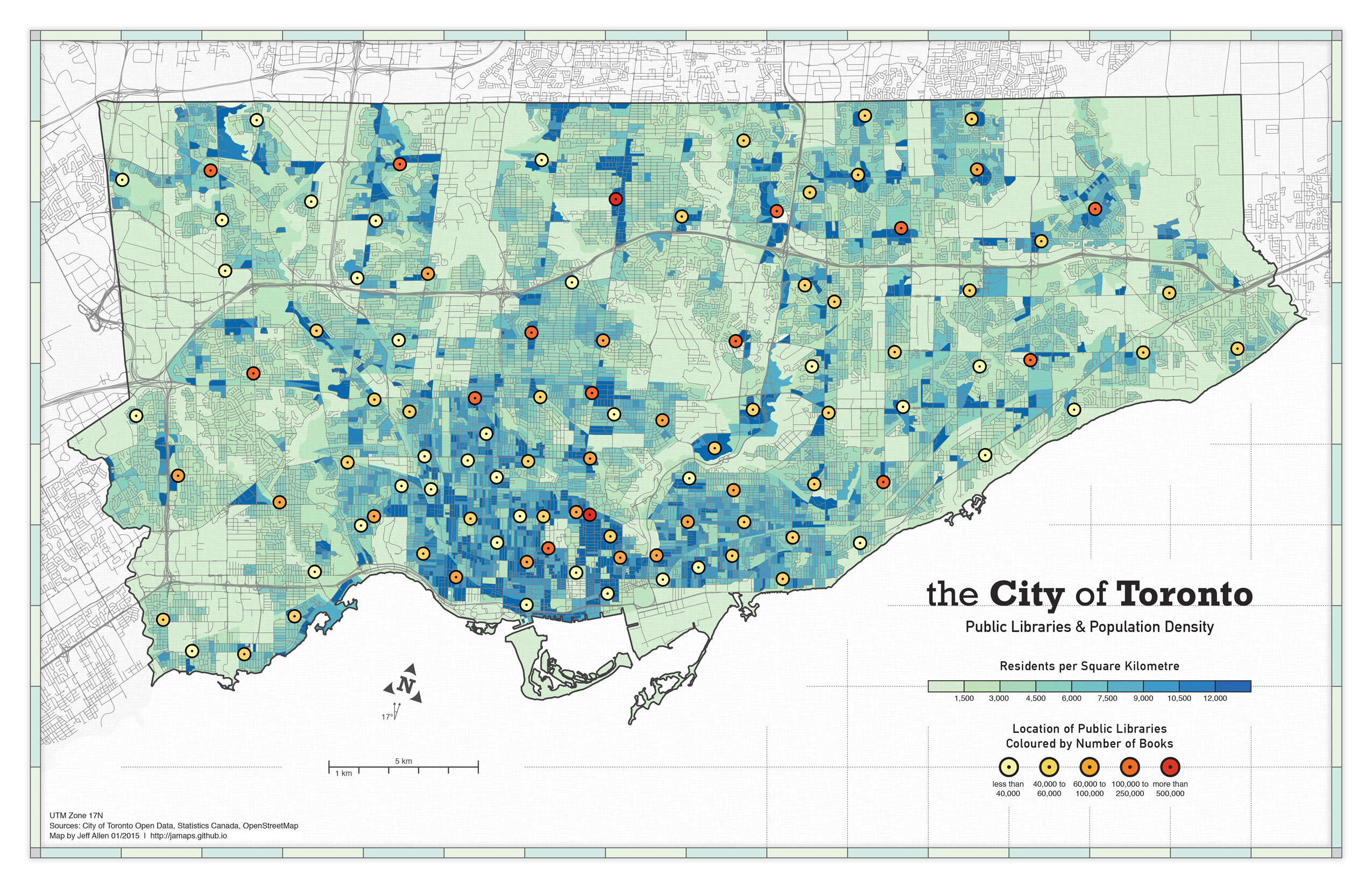 Toronto Public Libraries and Population Density (2015)